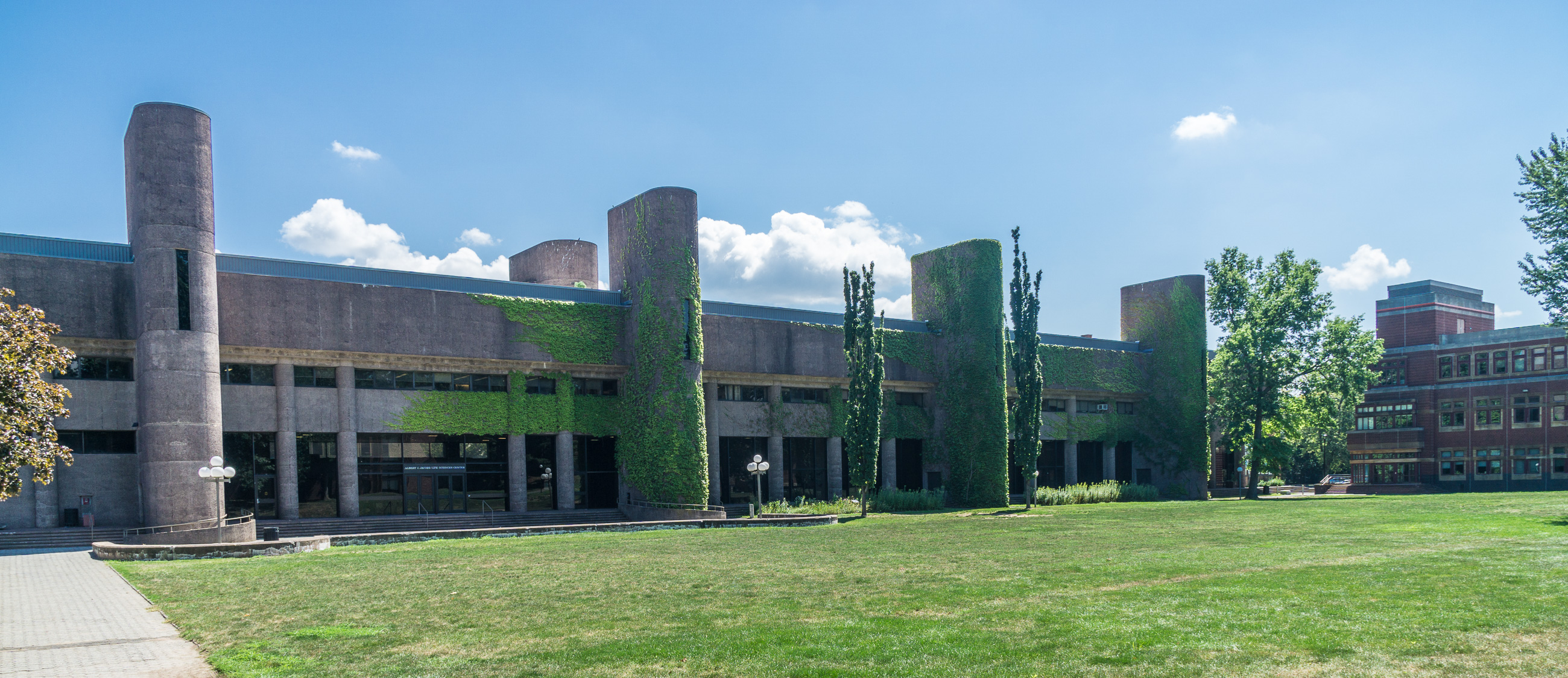 Trinity College, Hartford, Connecticut